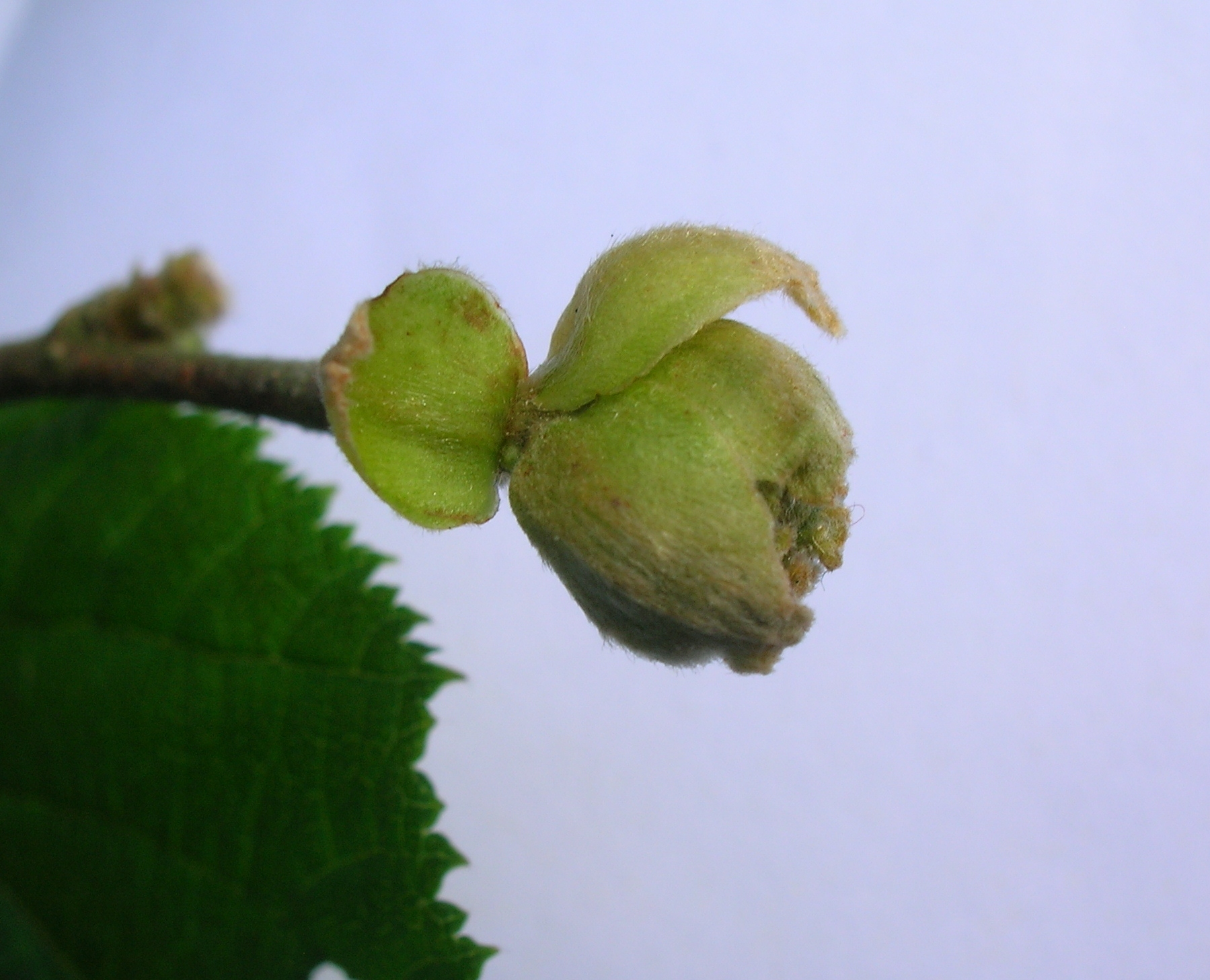 Big bud gall of Hazel, Mauchline, East Ayrshire, Scotland